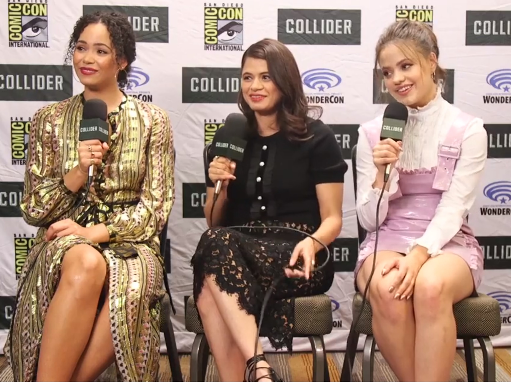 Left to right: Madeleine Mantock, Melonie Diaz, Sarah Jeffery. One of the many shows to visit this year’s Comic-Con was The CW’s reboot of Charmed. Inspired by the original series, the reboot centers on three sisters in a college town who, after the tragic loss of their mother, discover they are powerful witches. As you might expect, the sisters will use their powers to vanquish demons and protect the innocent. The series stars Melonie Diaz, Sarah Jeffery, Madeleine Mantock and Rupert Evans. Shortly before their Comic-Con panel, Diaz, Jeffery, and Mantock came by the Collider Studio for an exclusive interview. They talked about coming to the con for the first time, how their version of Charmed is different from the original, having the advantage of modern VFX, if they will exist in the same universe as the CW superhero shows, what show they’d love to guest star on, if they collect anything, and a lot more.